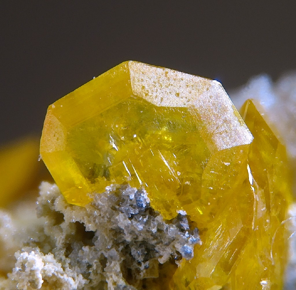 Wulfenite Locality: Los Lastonares mines, Albuñuelas, Granada, Andalusia, Spain Picture width 4 mm. Collection and photograph Christian Rewitzer